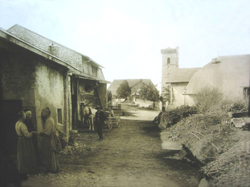 Claude Félix Abel Niépce de Saint-Victor, sur_verre